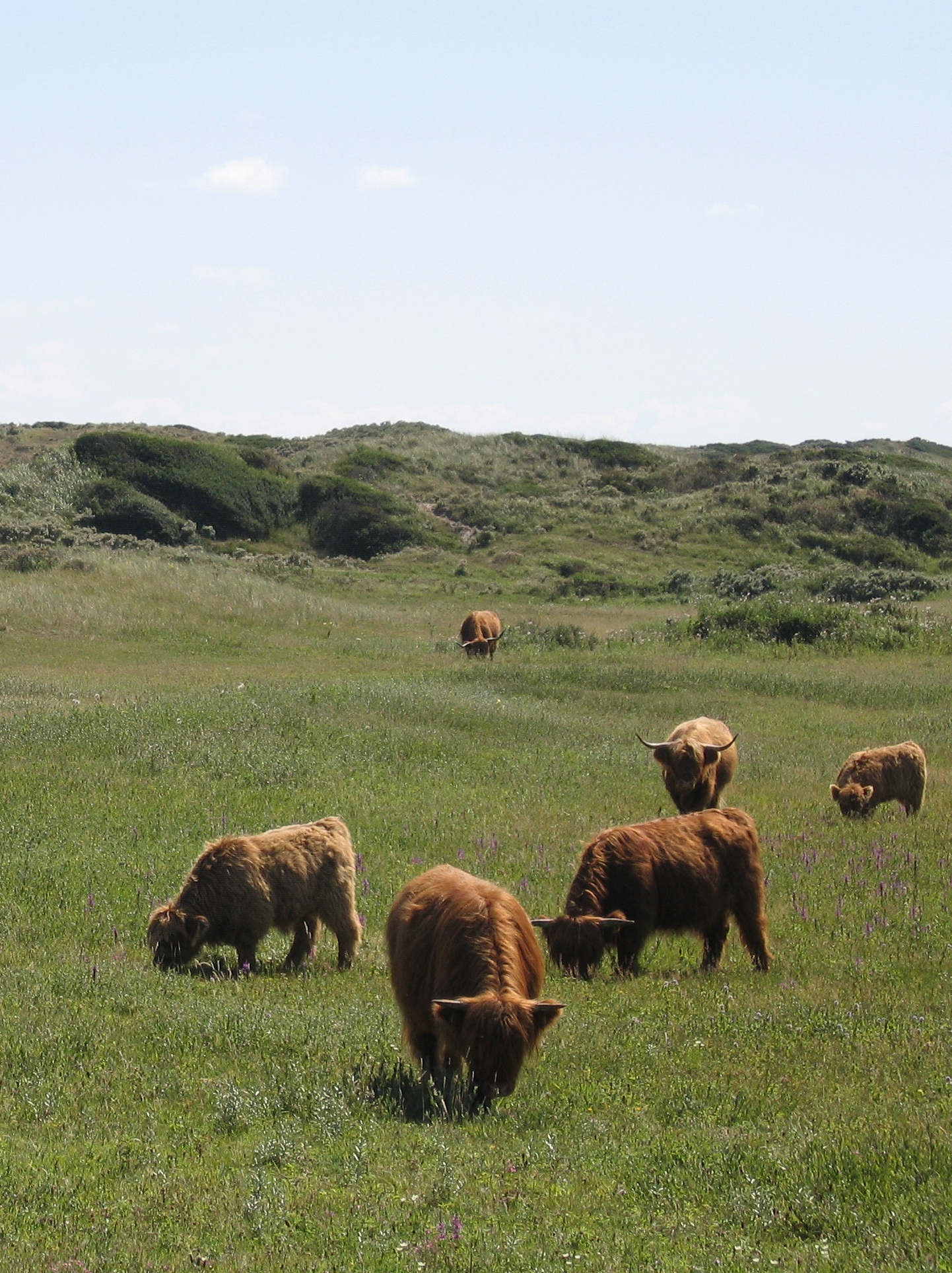 Highland cattle, IJmuiden, the Netherlands